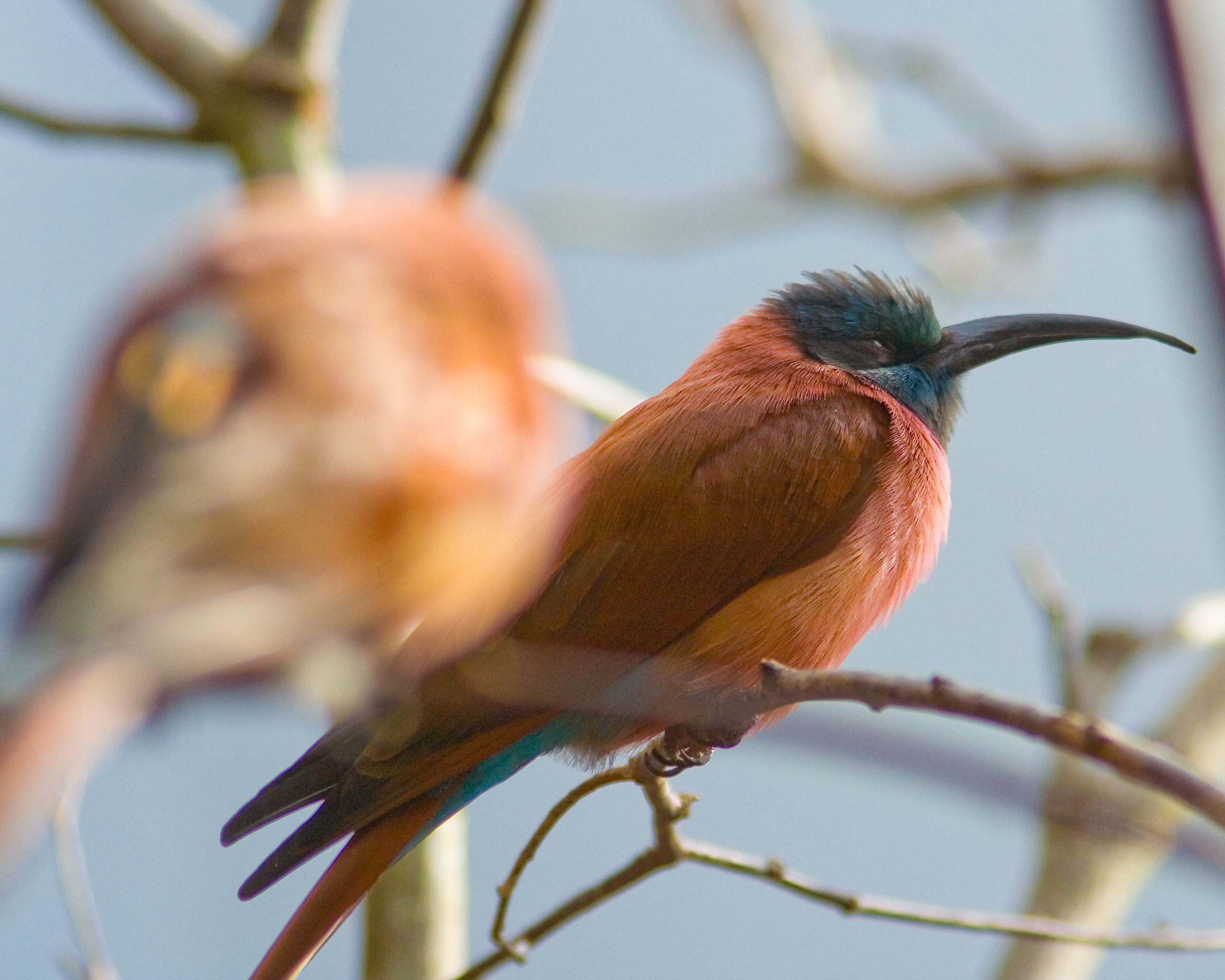 Northern carmine bee-eater. Merops nubicus Taken at the Oregon Zoo in Portland, OR.